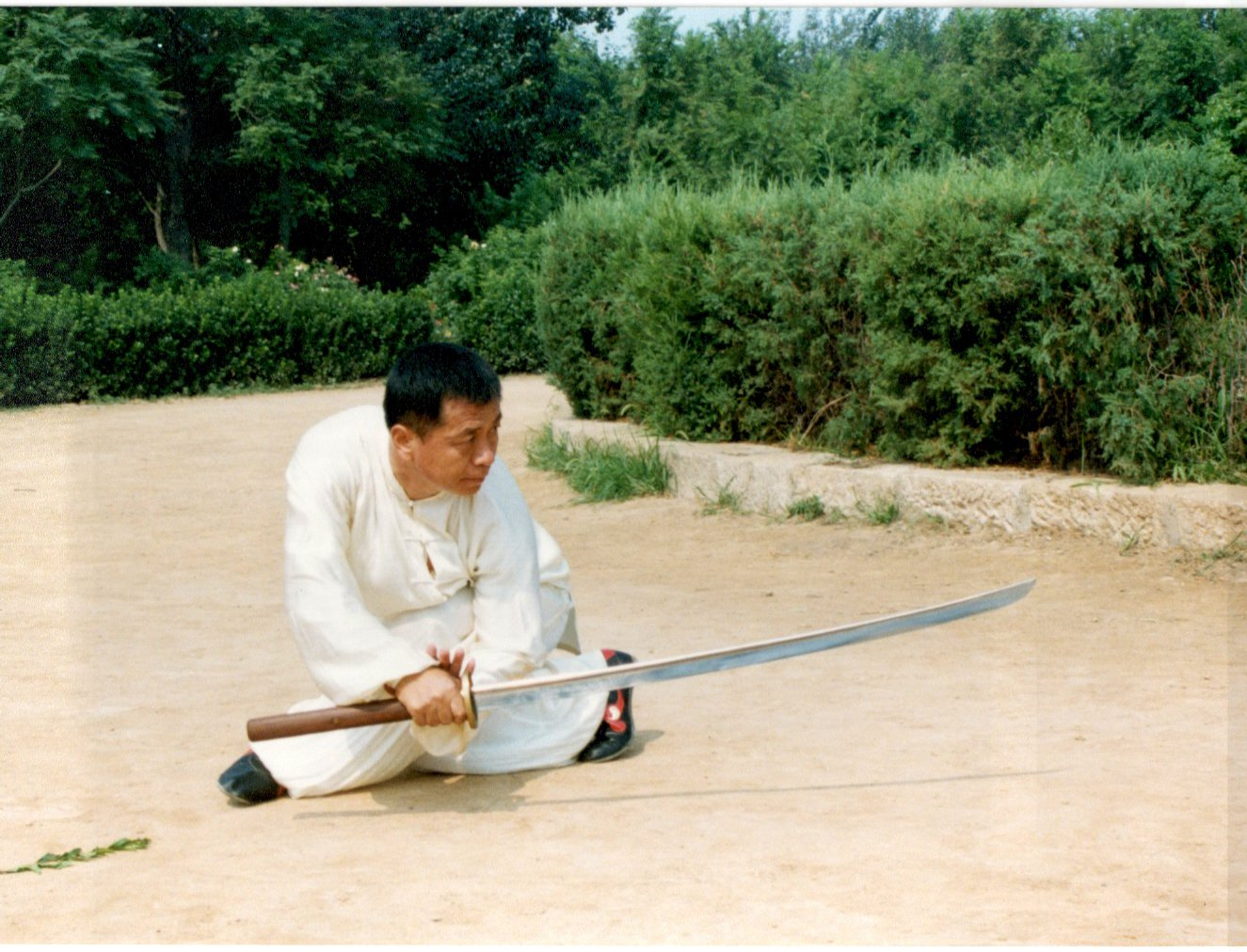 Master Wang Zhihai performing Miao Dao